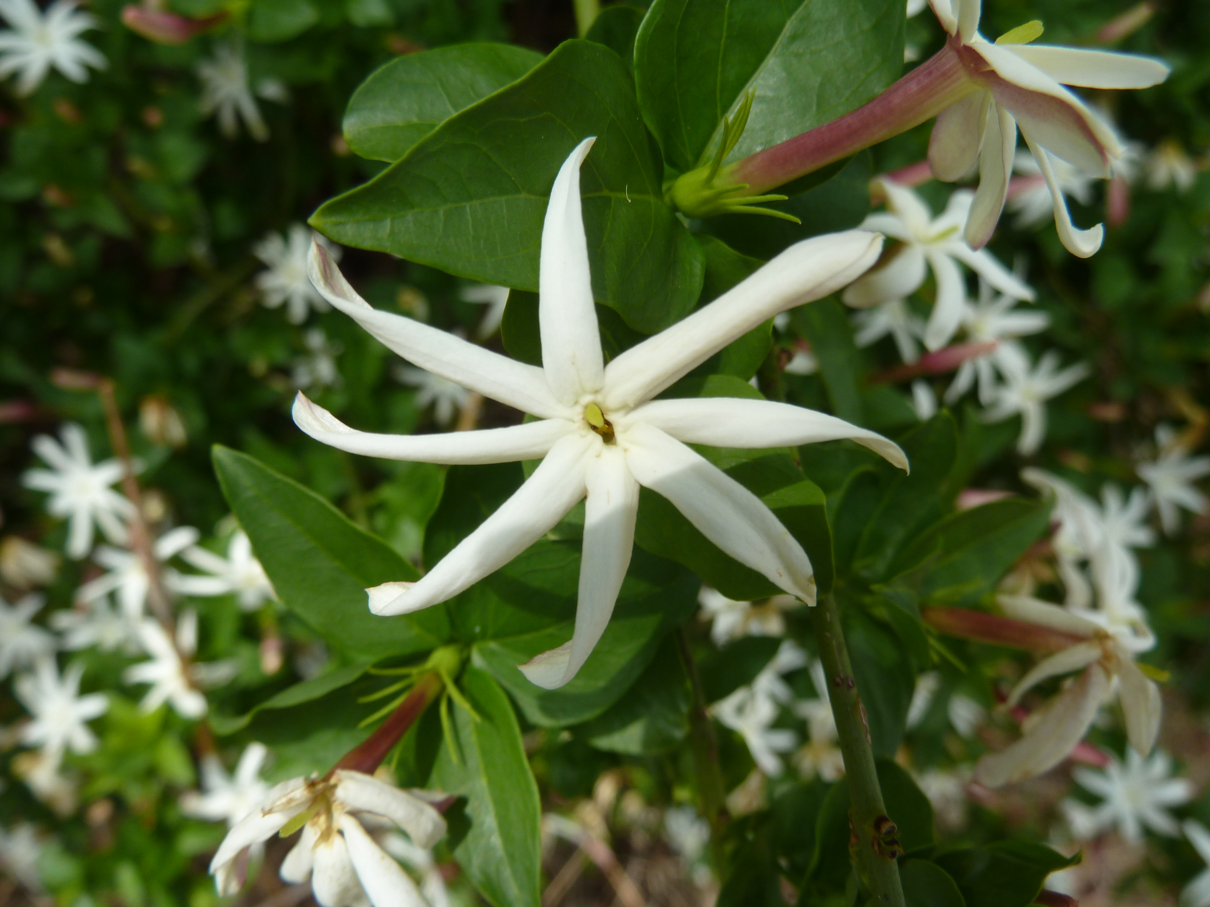 Wild Jasmine at Schanskop, Pretoria